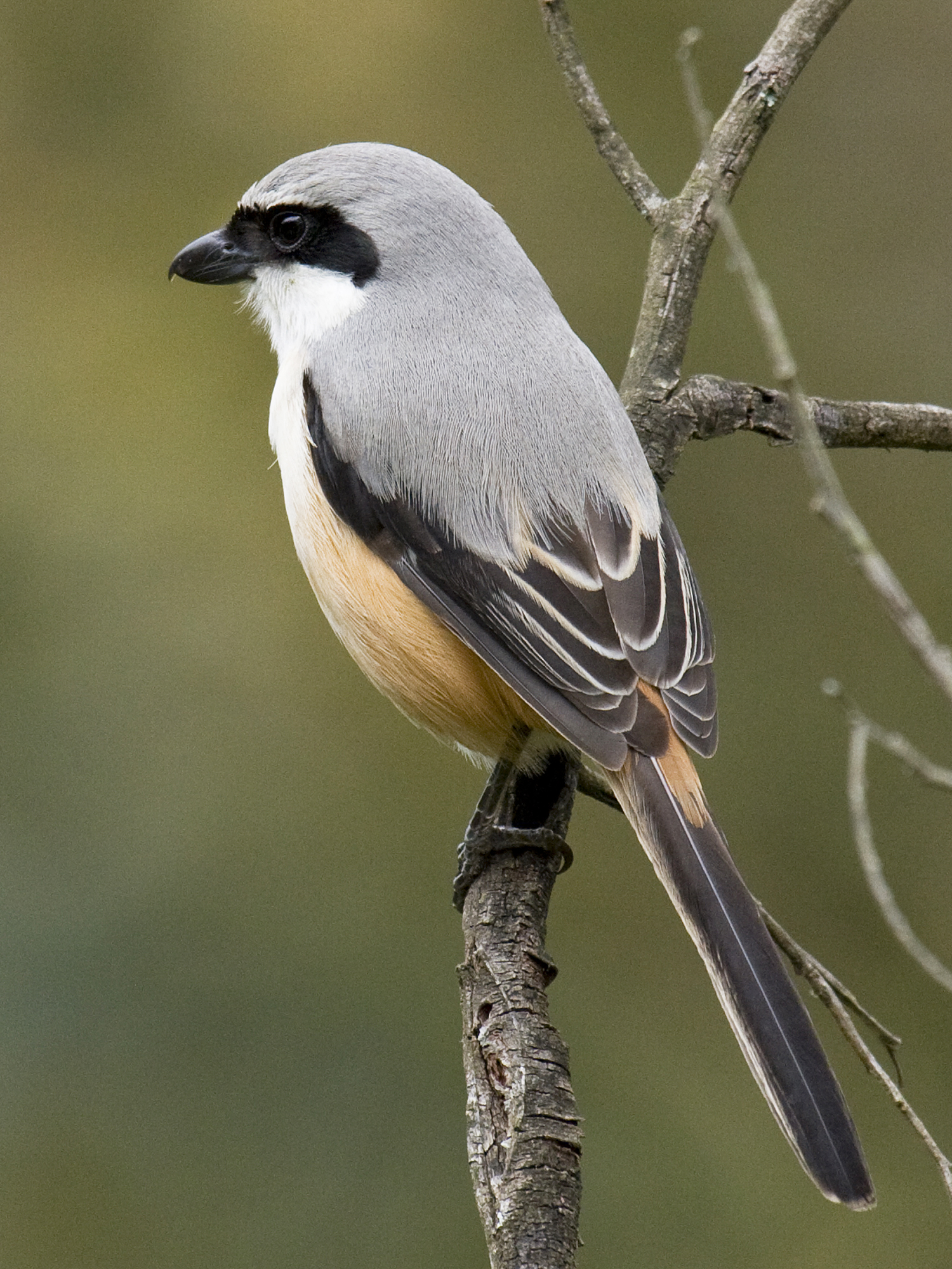 Rufous-backed Shrike or Long-tailed Shrike (Lanius schach caniceps).